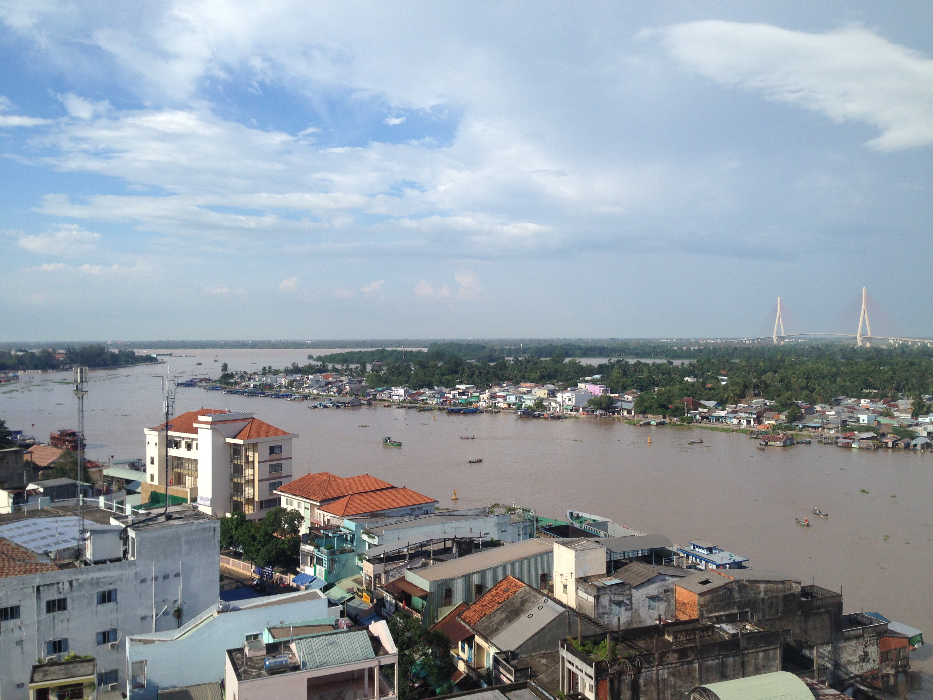 Cantho, southern Vietnam, with Can Tho Bridge in the background to the right.